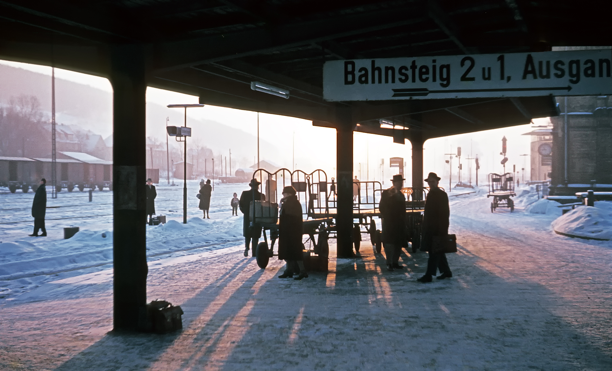 Railway station in Kreiensen in the district of Northeim, Lower Saxony, Germany in the year 1963. The subject of this image is the railway station Kreiensen in the year 1963. Kreiensen is an example for other railway stations in Germany. Nearly everything changed in the railway stations in the last 49 years. Station concourses, switch towers, baggage trolleys are mostly out of order. It is today not allowed to desert his baggage or to go over the rails to the next platform and so on.